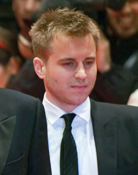 Kevin Bishop at the premiere of Irina Palm, at the 2007 Berlin International Film Festival.